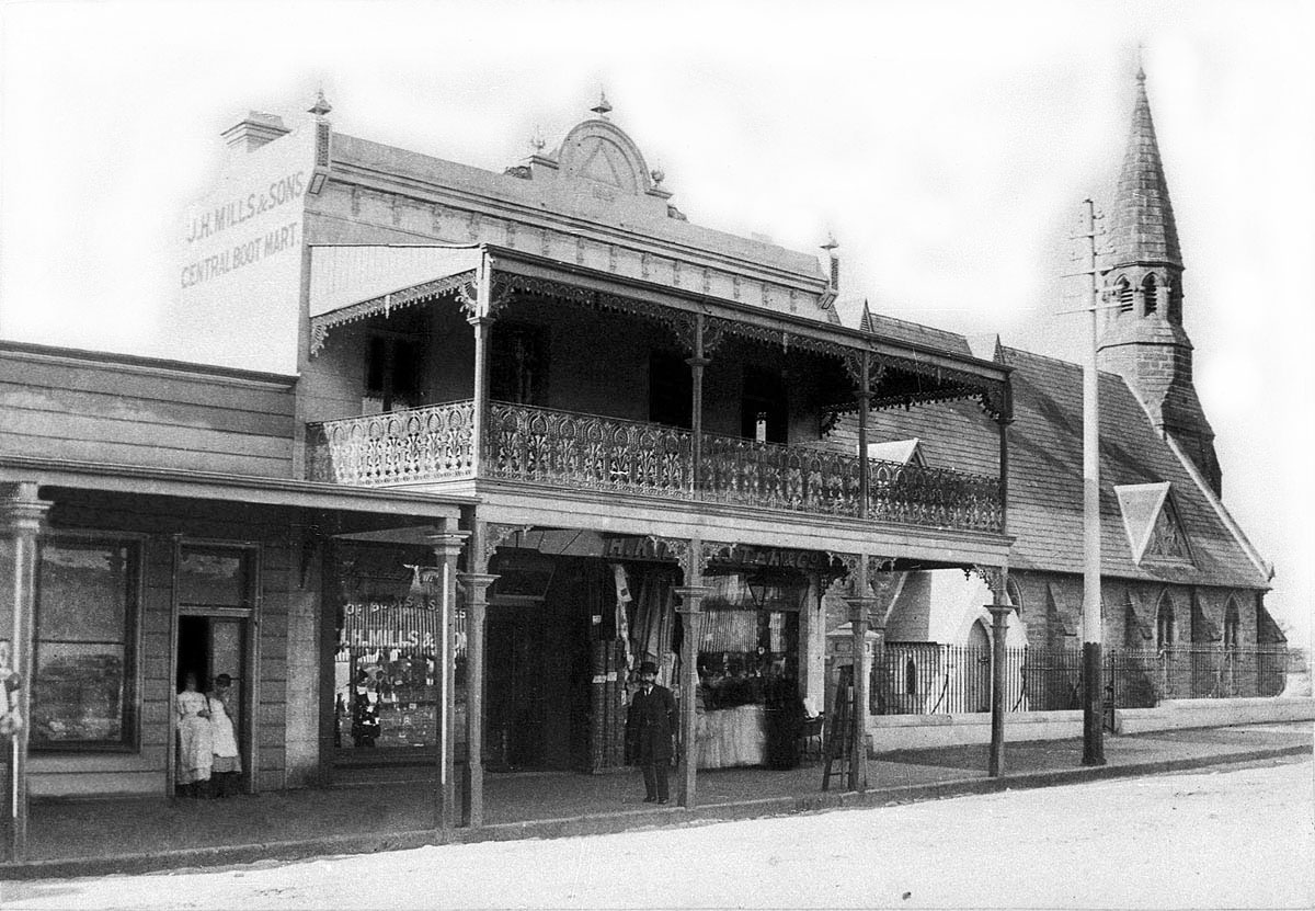 Darling st, Balmain c1888